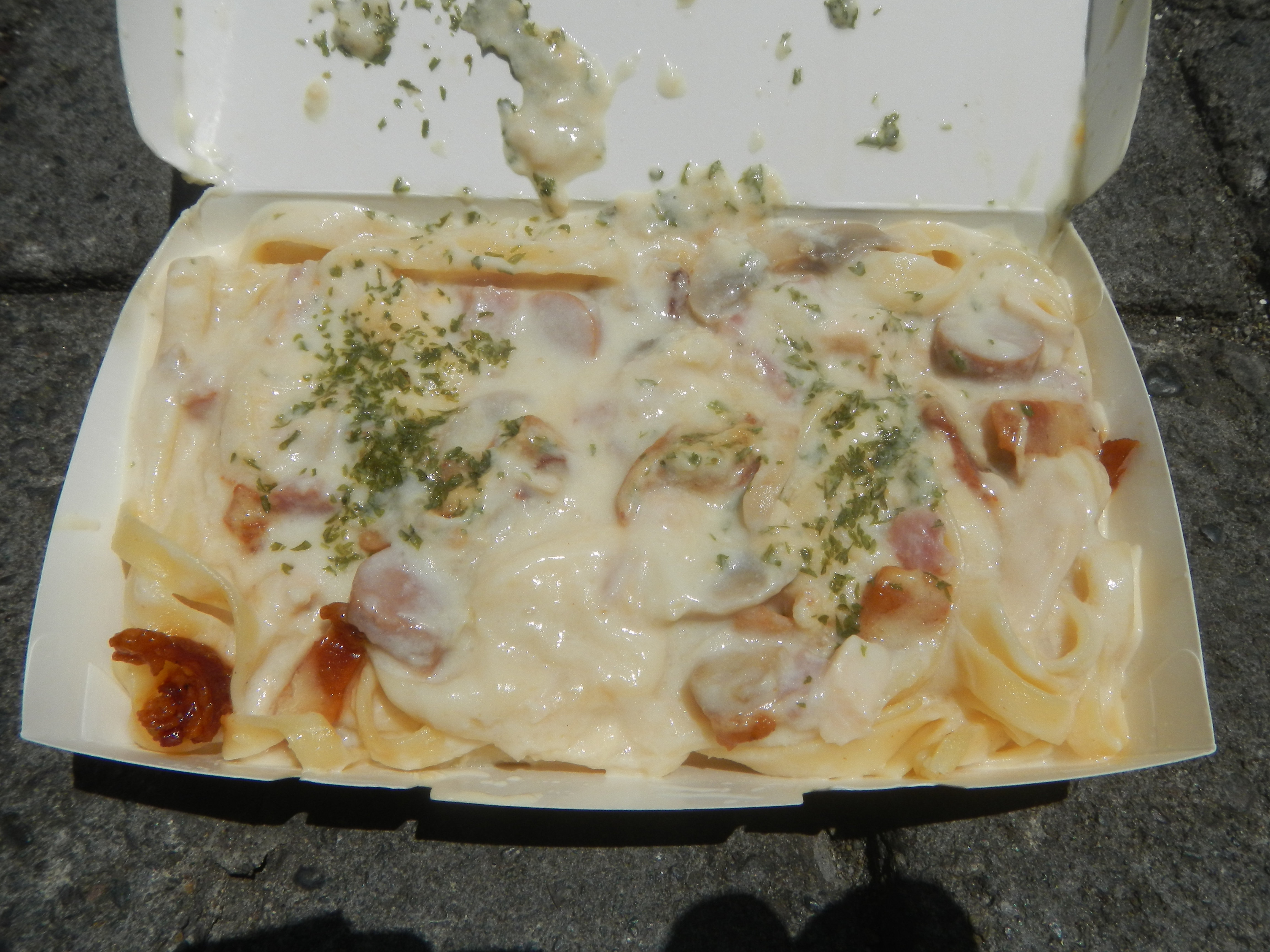 Photos taken during the 2020 coronavirus pandemic in Baliuag, Bulacan Timeline of the 2020 coronavirus pandemic in the Philippines 2020 coronavirus pandemic in the Philippines Bayanihan to Heal as One Act (RA 11469) Bayanihan Act of 2020. Signed on March 24, 2020 7,958 Covid-19 cases in Philippines April 28; 12,933 as of May 19, 2020; 14,669 Covid-19 cases in Philippines May 26; 886 deaths; [ Covid-19 cases in Philippines June 2 - 18,997 and 966 deaths; Category:Sitios and puroks of the Philippines Subdivisions of the Philippines Barangay Poblacion 14°57'17"N 120°54'2"E, Bagong Nayon and Pagala, Baliuag, Bulacan, Bulacan province (Note: Judge Florentino Floro, the owner, to repeat, Donor FlorentinoFloro of all these photos hereby donate gratuitously, freely and unconditionally Judge Floro all these photos to and for Wikimedia Commons, exclusively, for public use of the public domain, and again without any condition whatsoever).